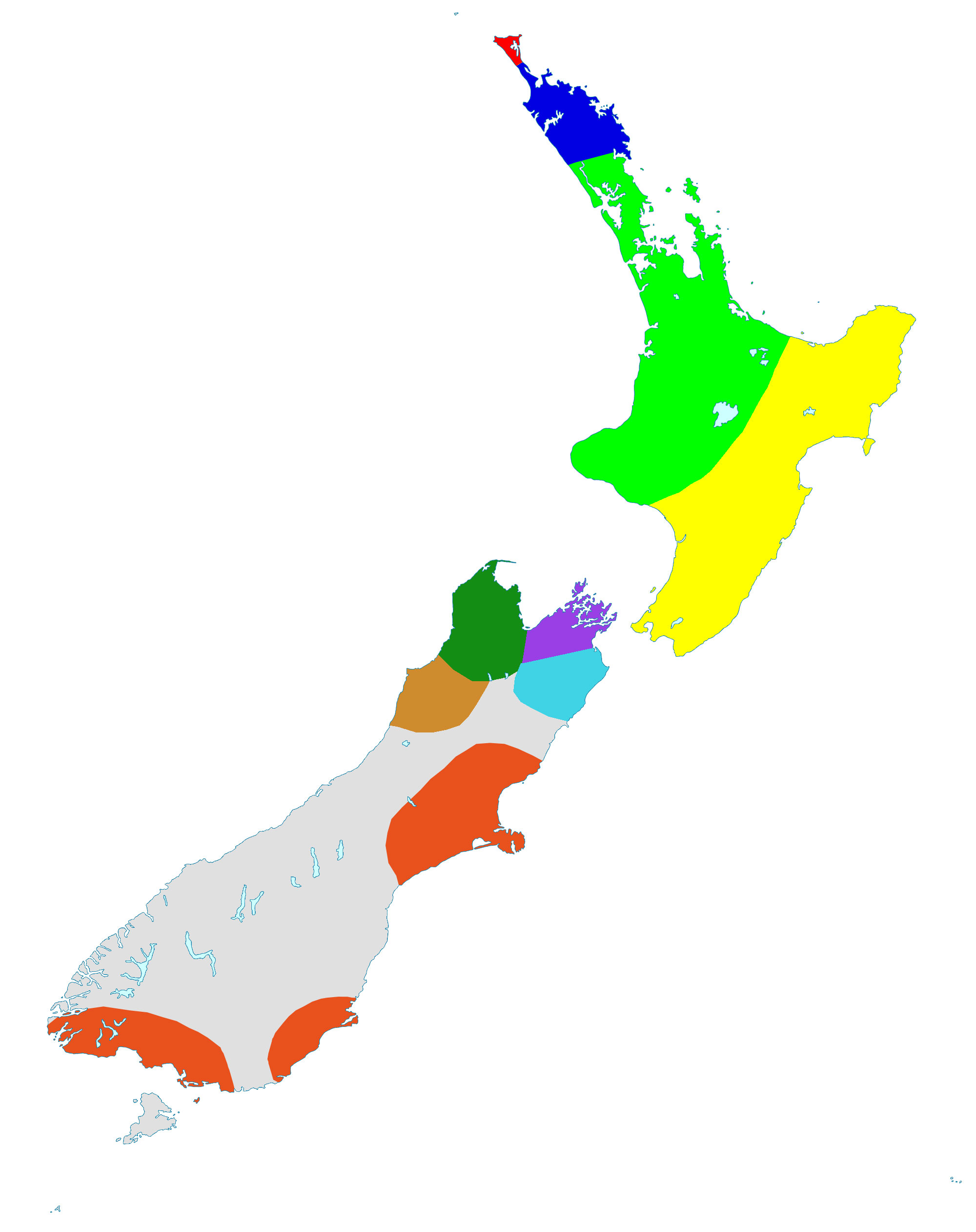 Natural distribution of Naultinus species, geckos endemic to New Zealand. N. "North Cape" Naultinus grayii Naultinus elegans Naultinus punctatus Naultinus manukanus Naultinus rudis Naultinus stellatus Naultinus tuberculatus Naultinus gemmeus absent